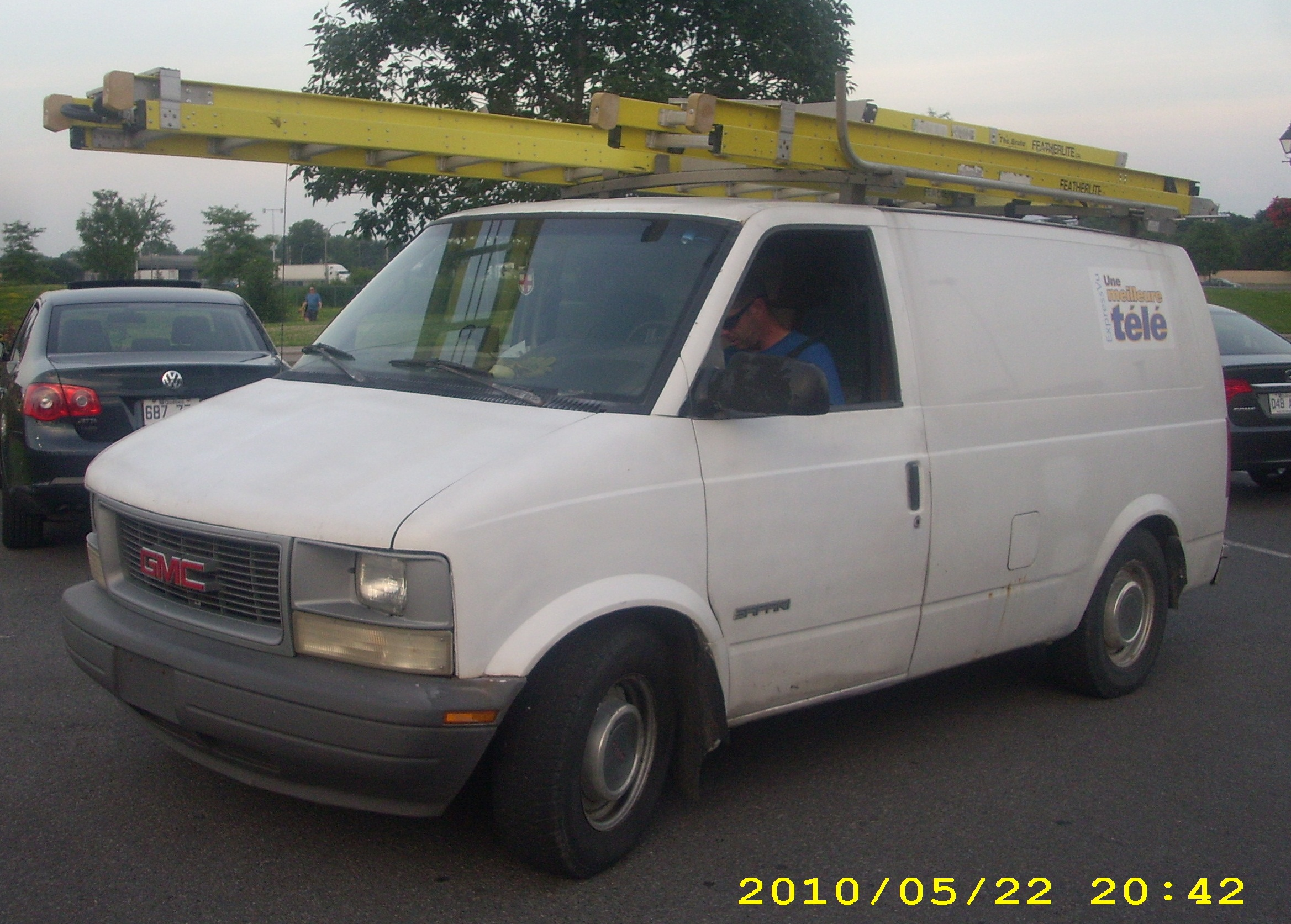 GMC Safari photographed in Kirkland, Quebec, Canada.